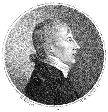 Portrait of 1804